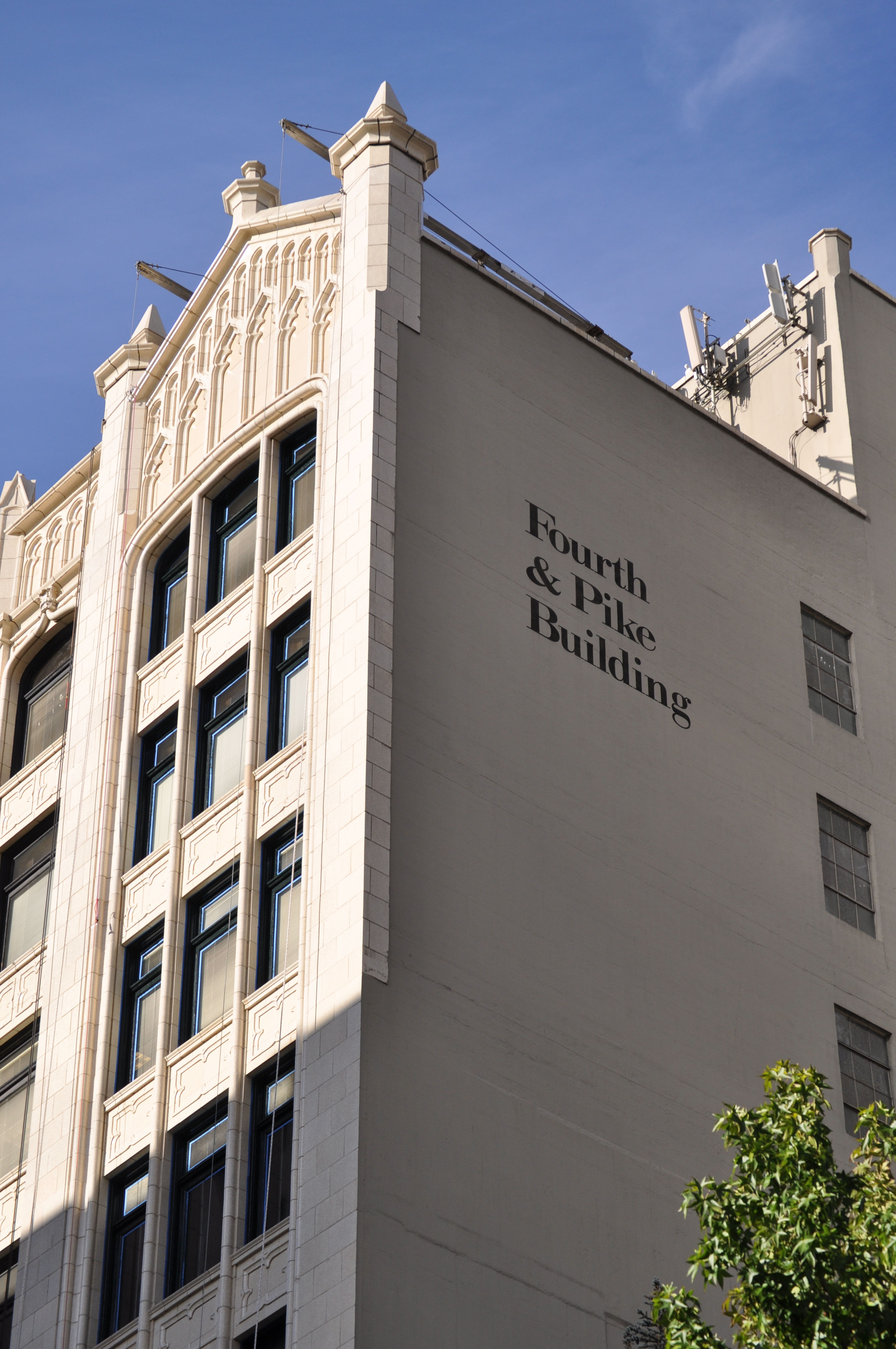 Detail of Fourth & Pike Building (also known as Liggett Building), 1424 Fourth Avenue, Seattle, Washington, USA. The building has city landmark status.